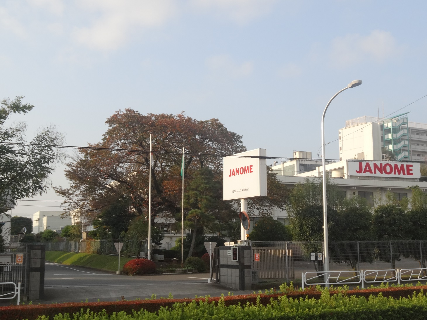 JANOME SEWING MACHINE CO., LTD.